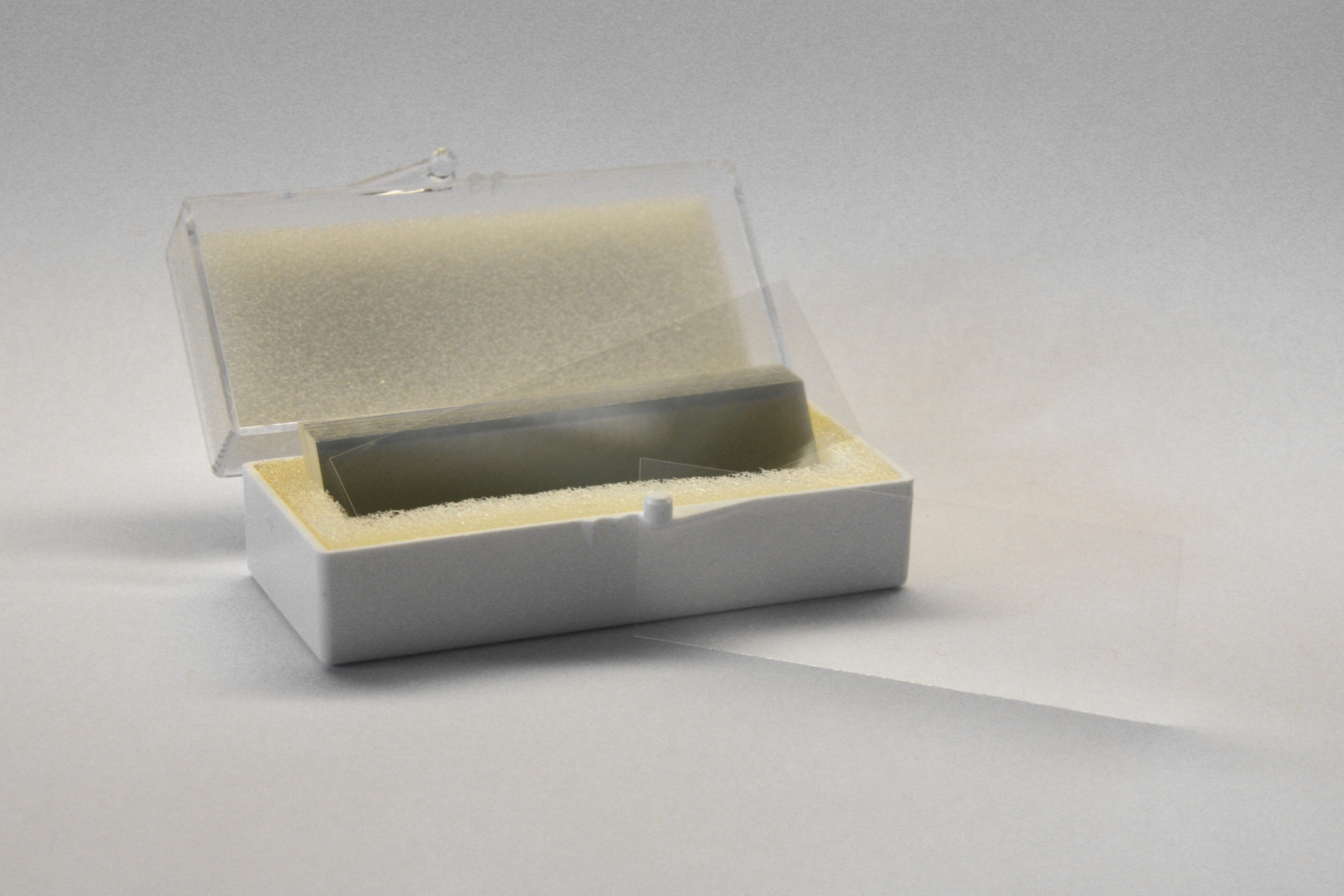 A box of standard 66 by 24 mm coverslips for use in light microscopy.